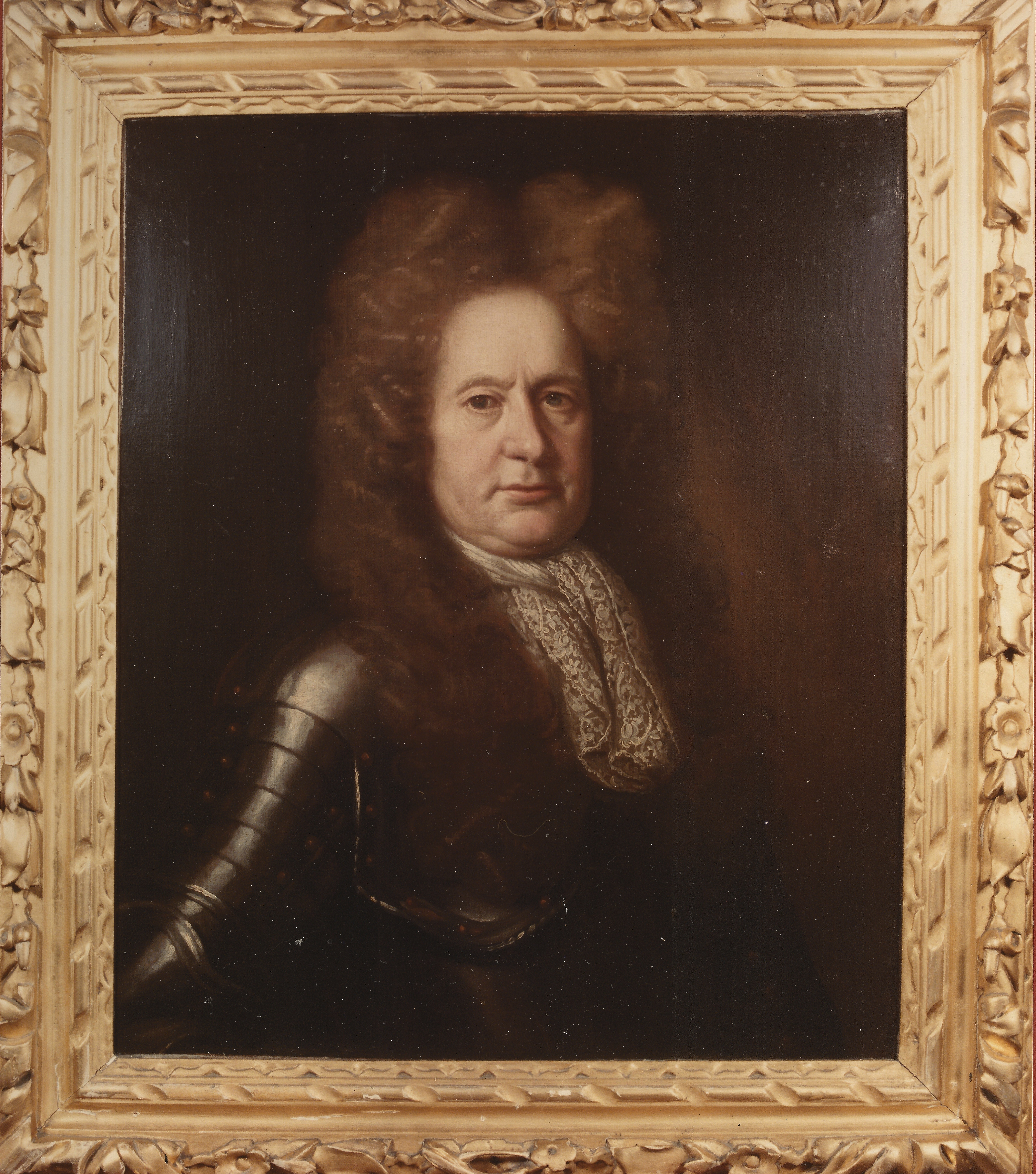 Lieutenant-General Francis Palmes of Carcraig. Member of Parliament for West Looe and an associate of the Duke of Marlborough. Original portrait is the property of the Palmes family of Naburn.